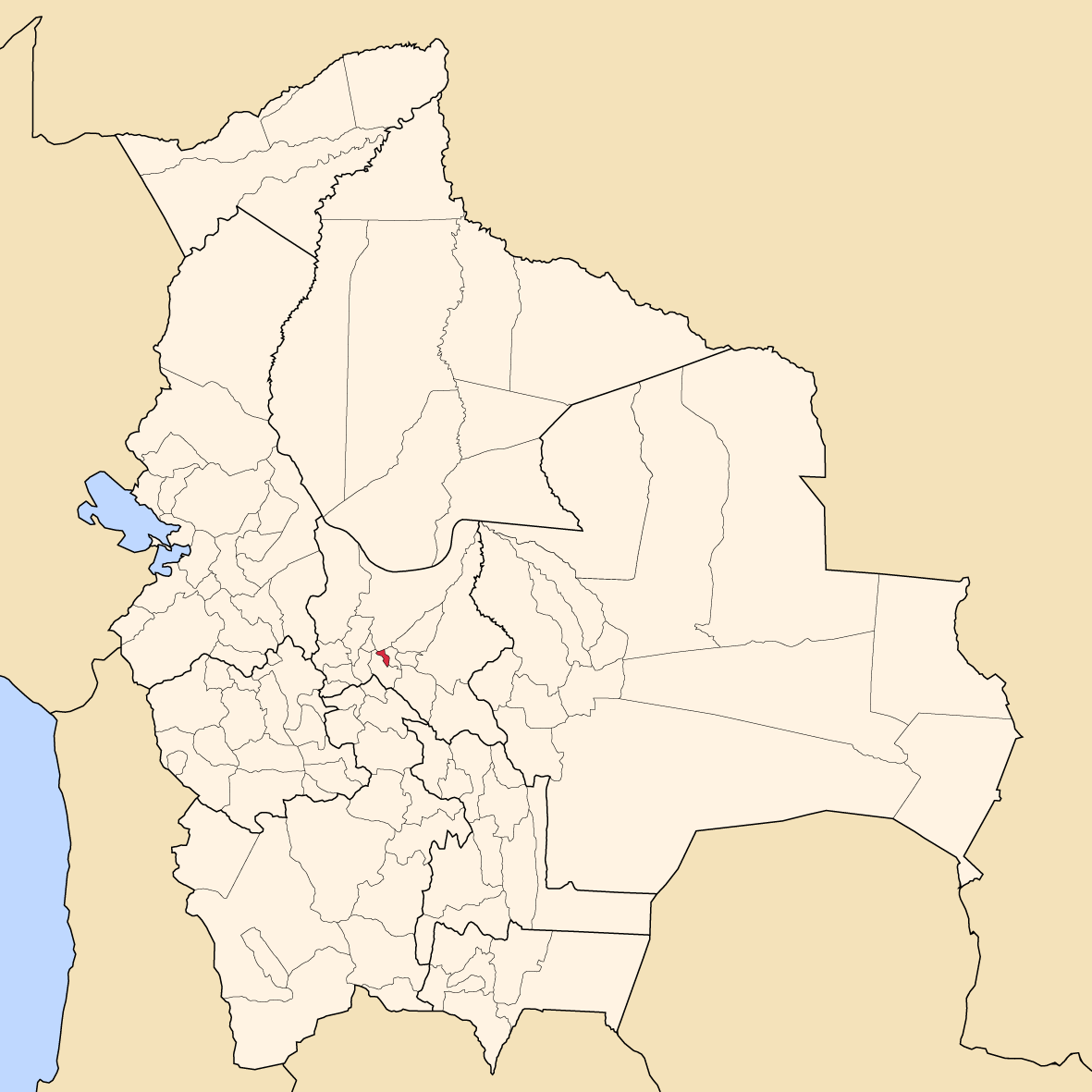 Map of Bolivia showing Germán Jordán province